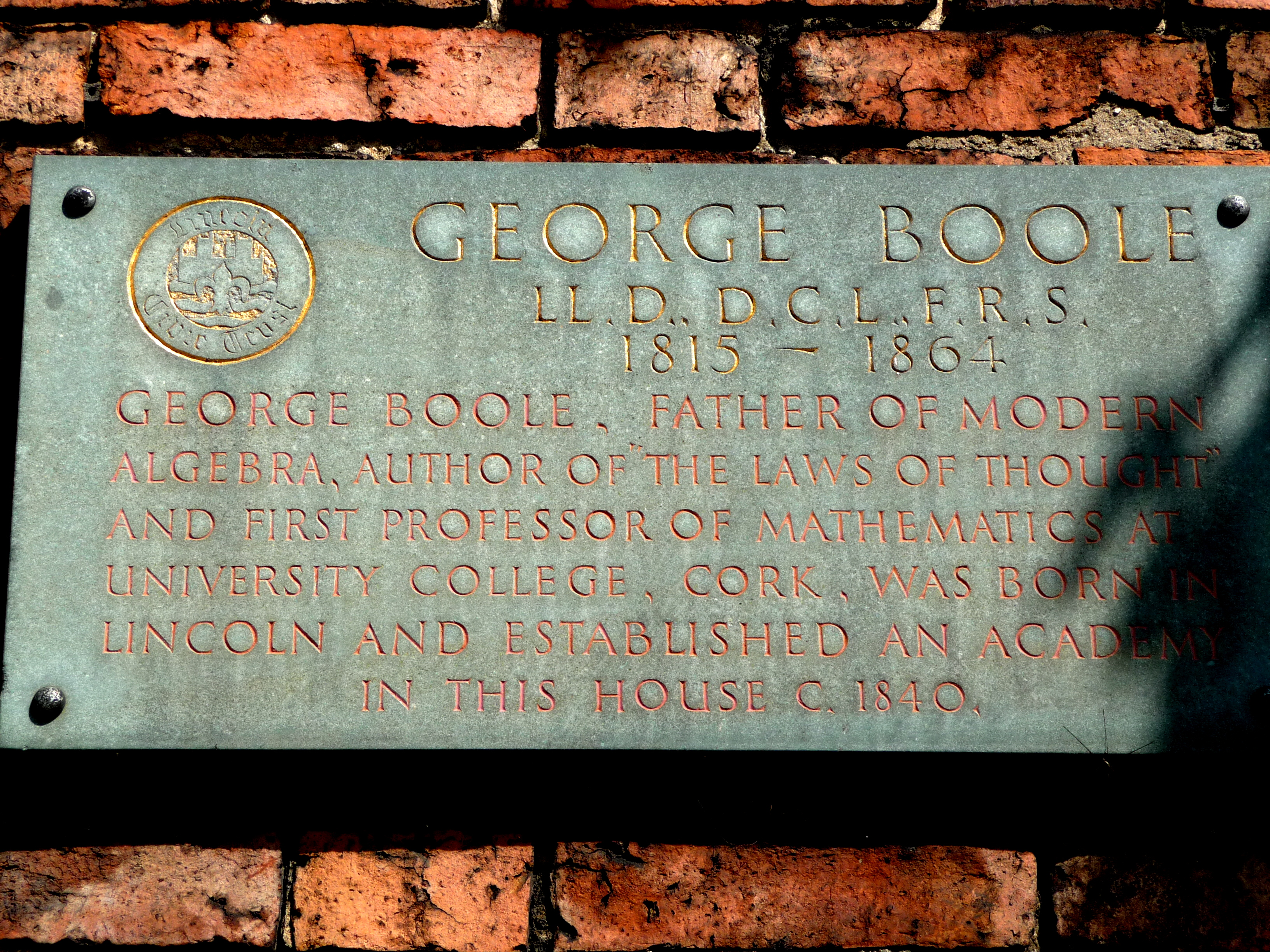 Plaque on George Boole's House